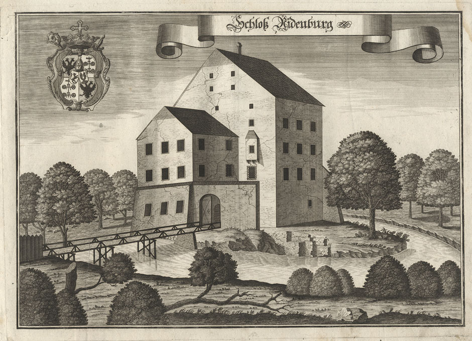 "Schloss Riedenburg" from: Beschreibung des Churfürsten- u. Hertzogthumbs Ober- und Nidern Bayrn. Rentamt Landshut. Gericht Rottenburg, 1723